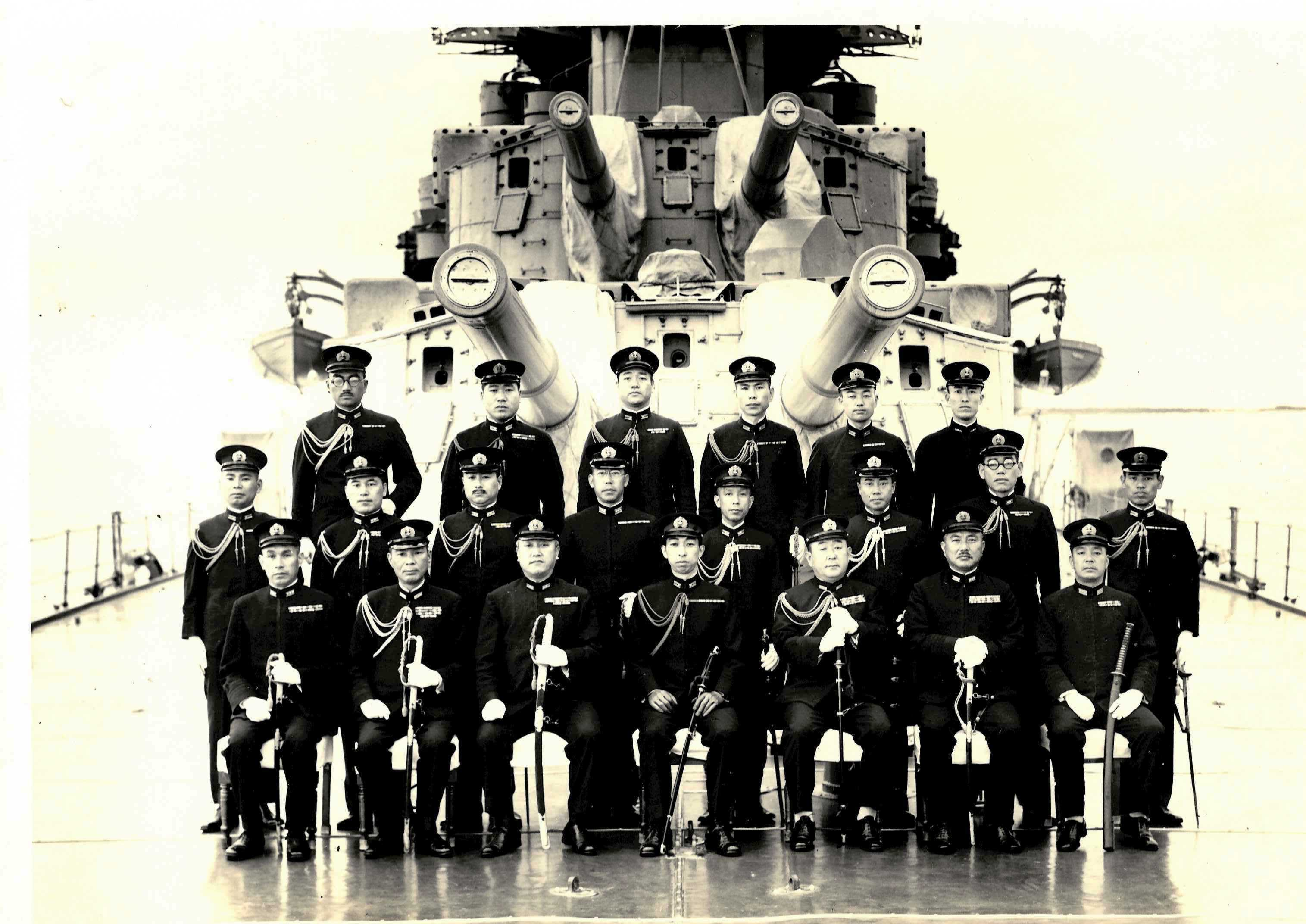 First row, 2nd from left, Matome Ugaki, 3rd, Nobutake Kondō, 4th, Prince Takamatsu, 5th, Tamon Yamaguchi, and 6th, Kakuji Kakuta